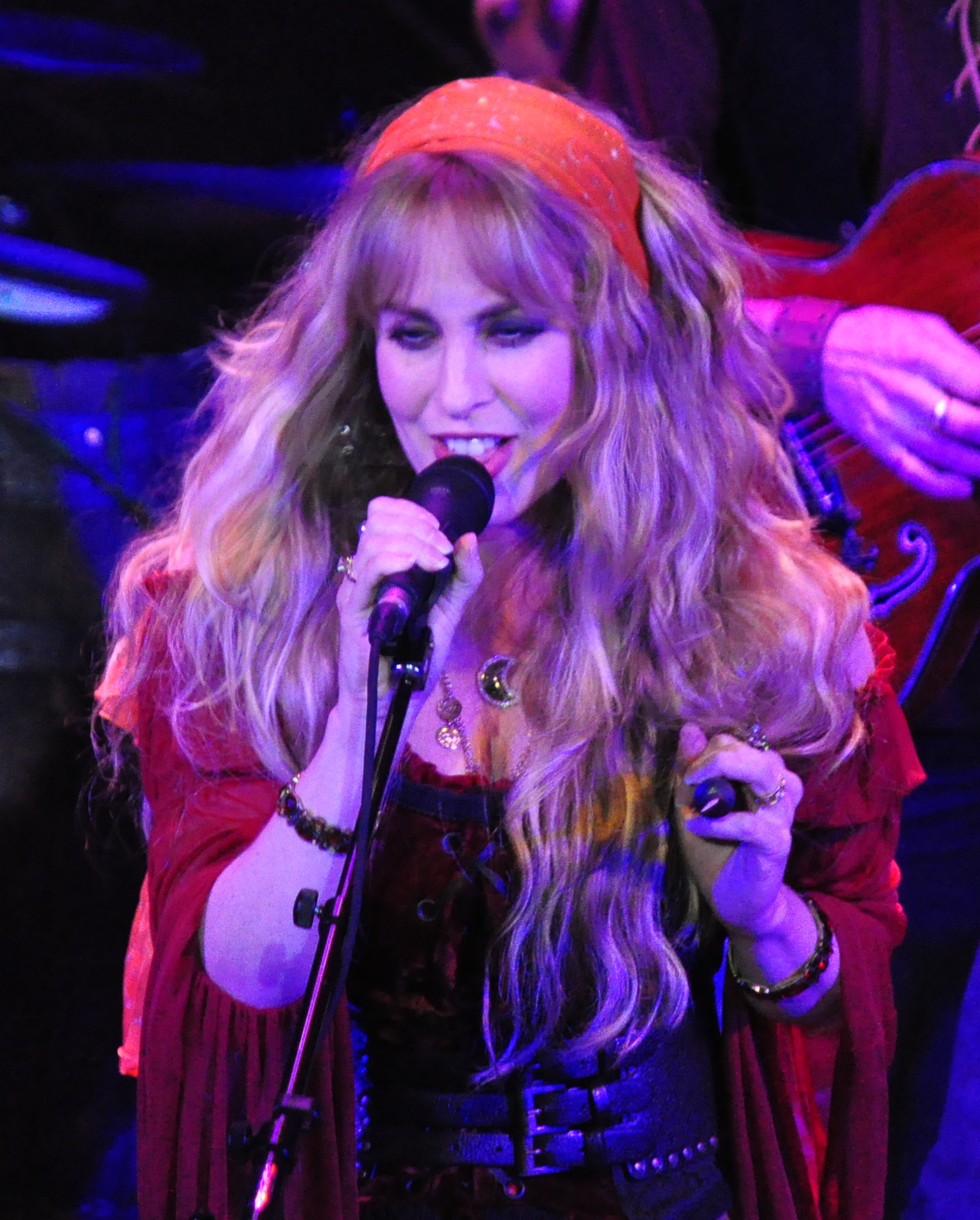 Candice Night live in concert with Blackmore's Night at the Tarrytown Music Hall, October 25, 2012